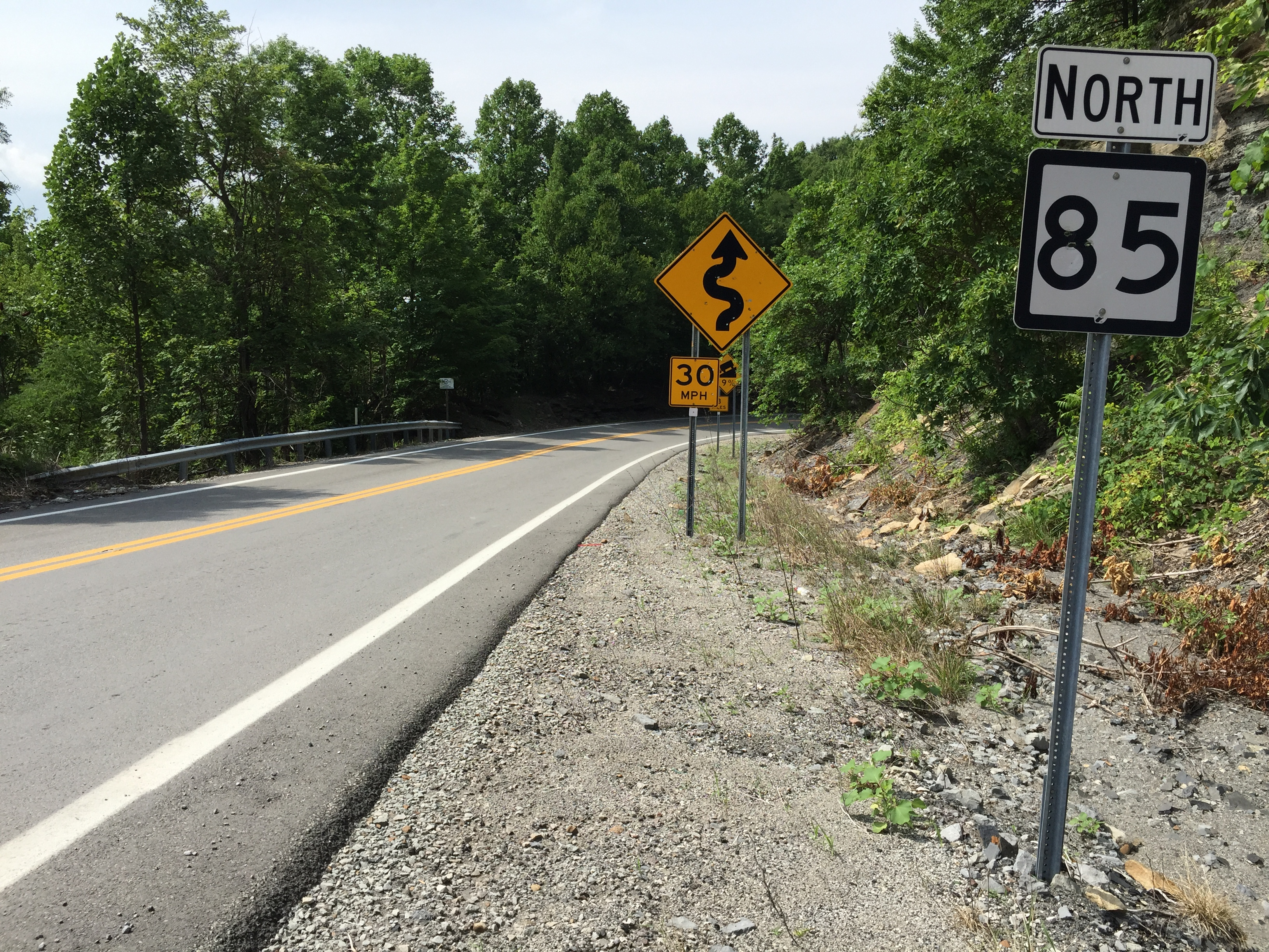 View north along West Virginia State Route 85 (Pond Fork Road) at West Virginia State Route 99 (Bolt Road) in southeastern Boone County, West Virginia